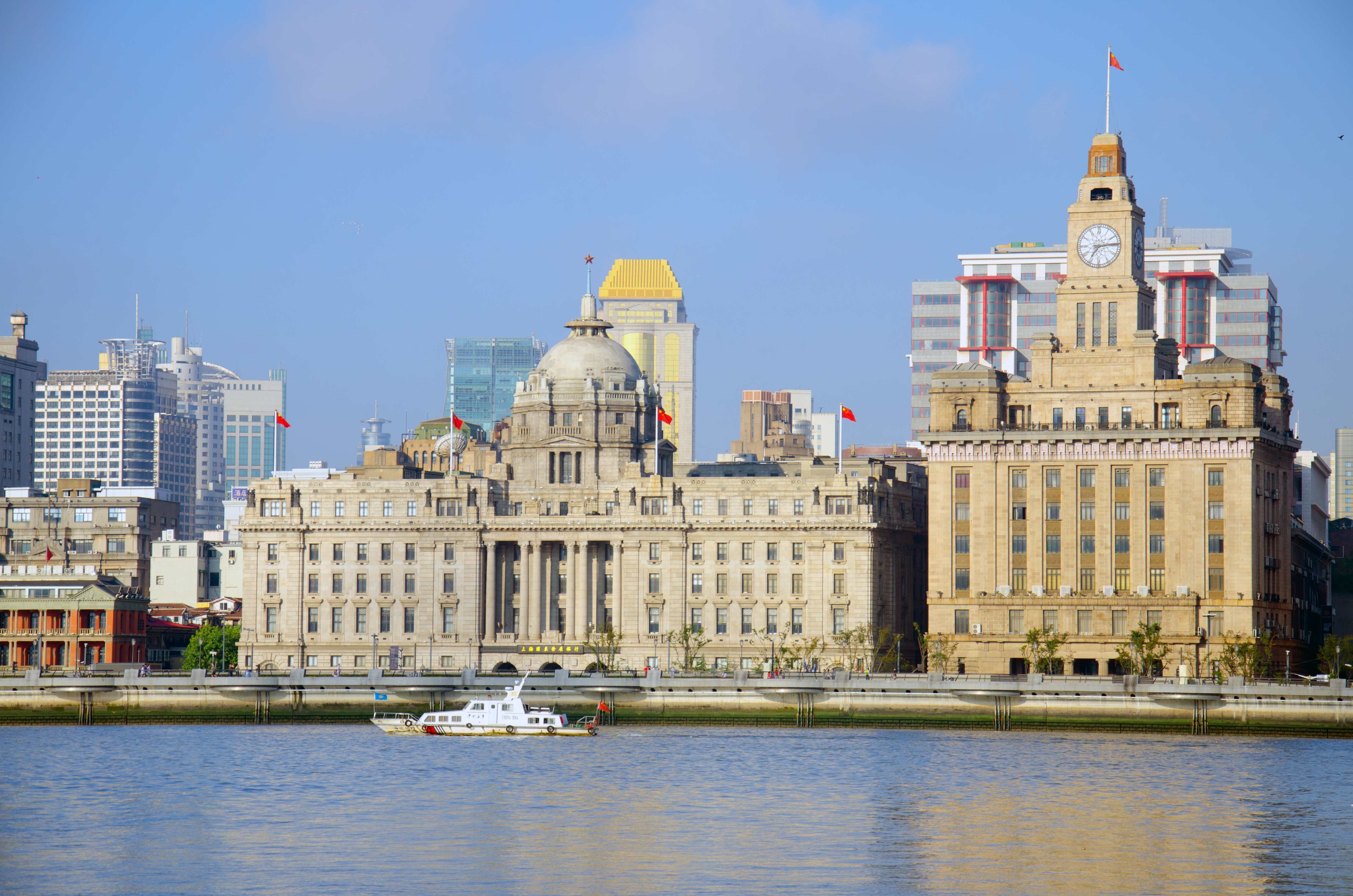 China Maritime Safety Administration vessel passing the Bund (外滩), Huangpu River in Shanghai